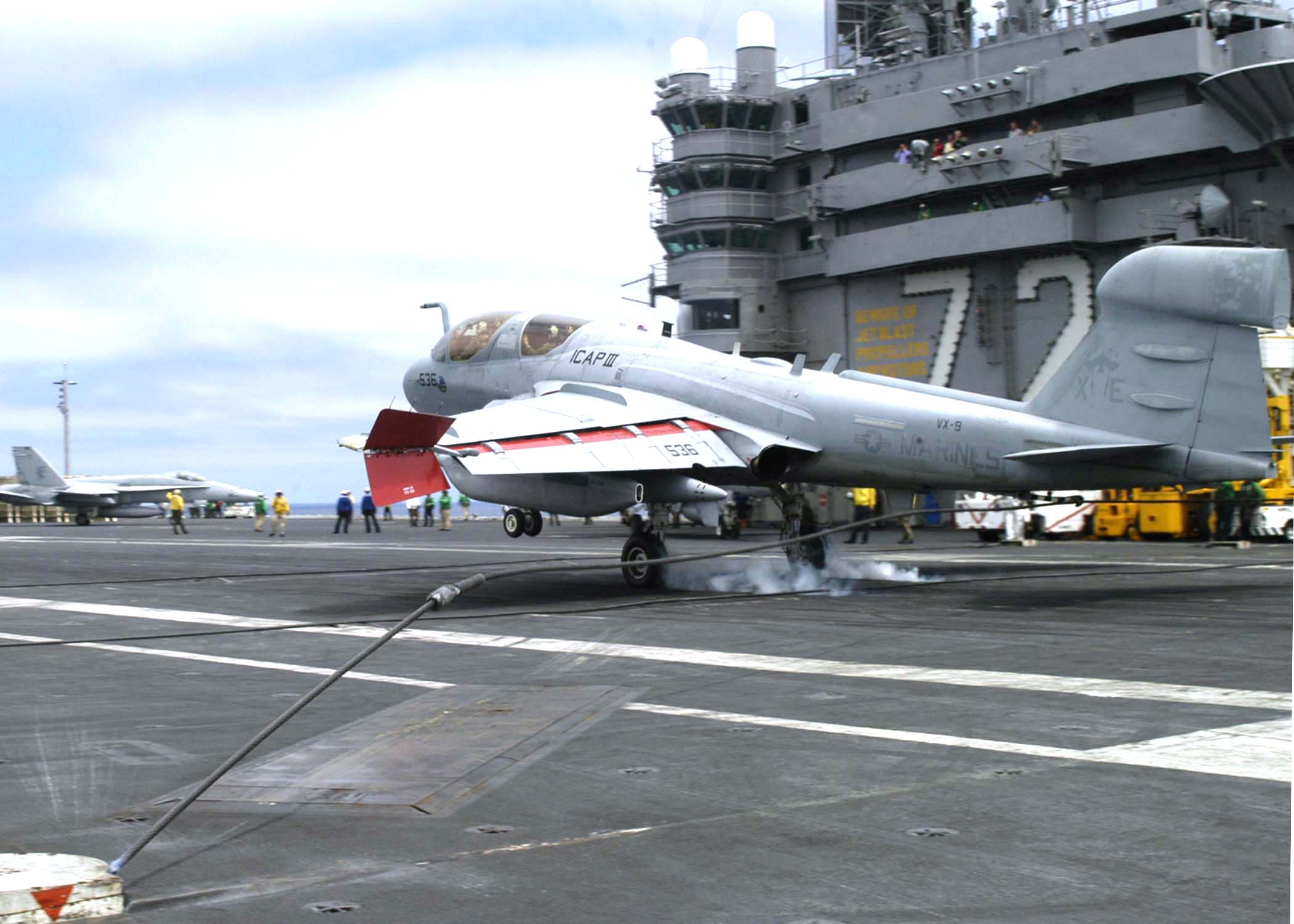 An EA-6B Prowler assigned to Testing and Evaluation Squadron Nine (VX-9) makes an arrested landing aboard the aircraft carrier USS Abraham Lincoln (CVN 72). Lincoln is currently conducting operations in preparation for an up coming deployment.